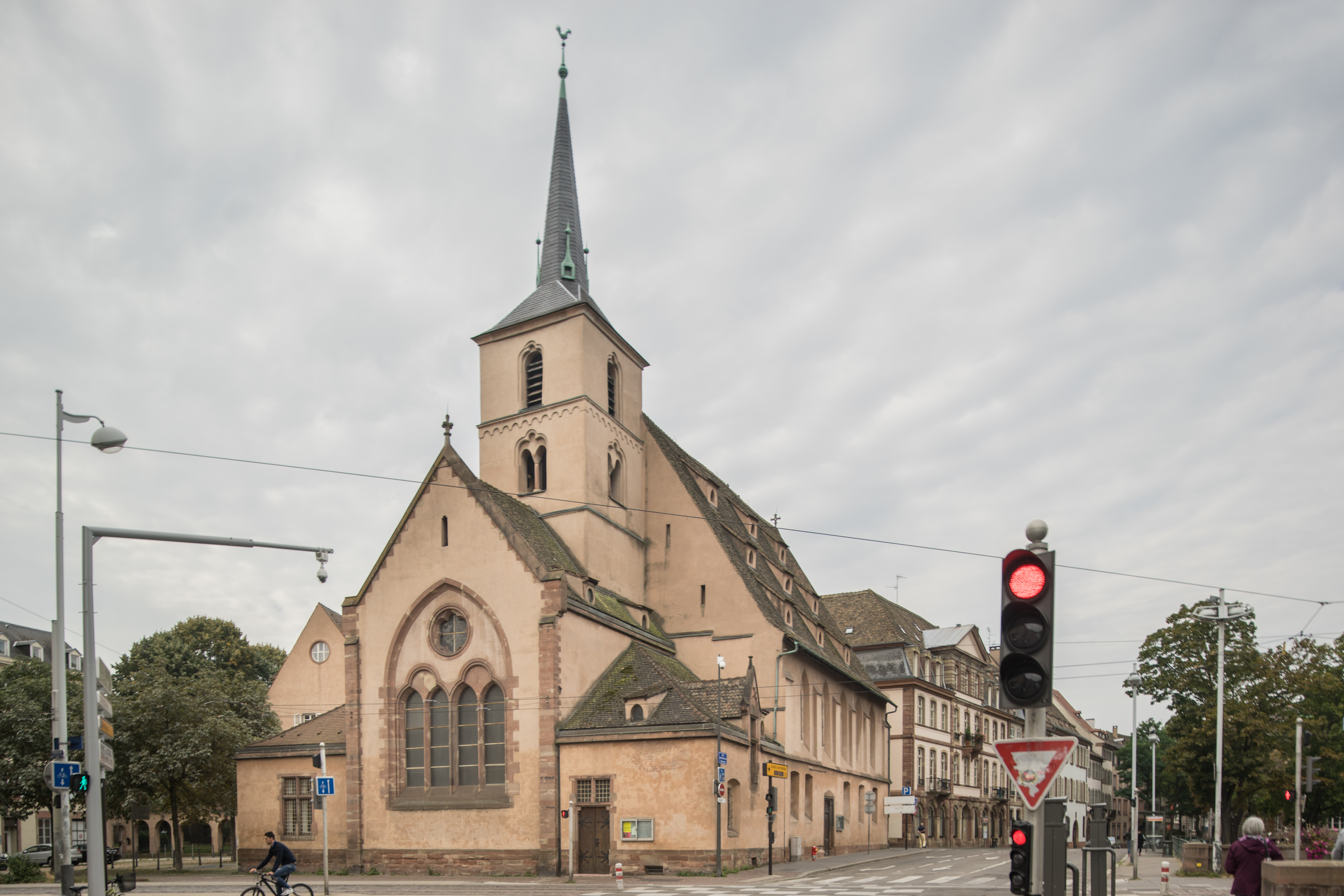 Église Saint-Nicolas de Strasbourg from Quai Saint-Nicolas .